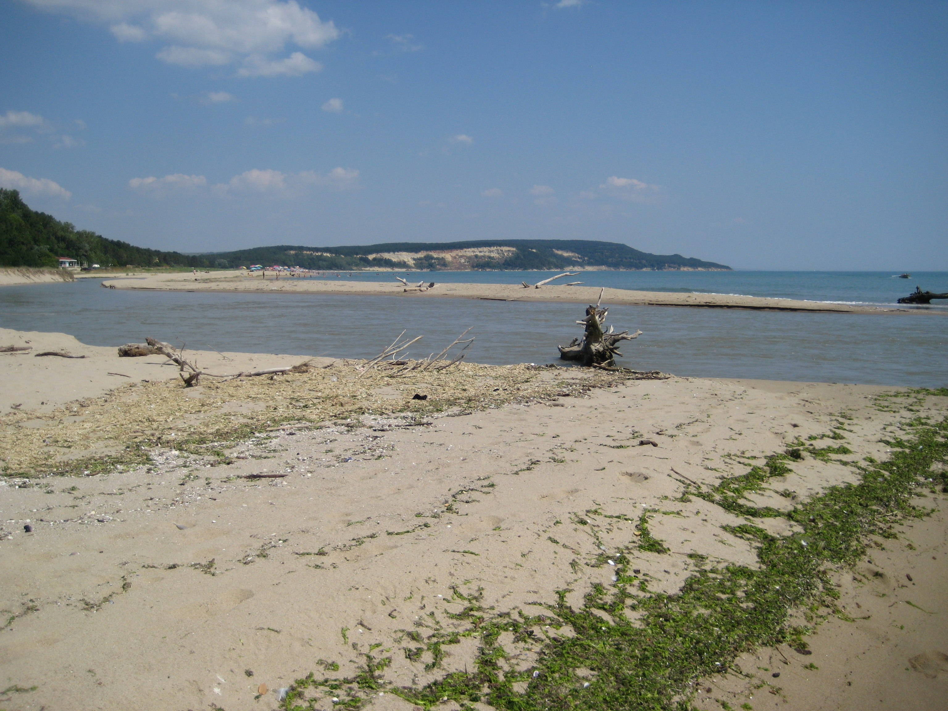 View of the mouth and spit of the river kamchia